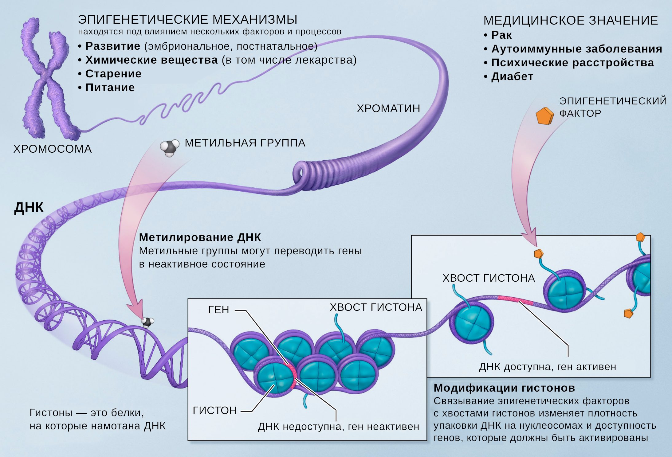 Epigenetic mechanisms are affected by several factors and processes including development in utero and in childhood, environmental chemicals, drugs and pharmaceuticals, aging, and diet. DNA methylation is what occurs when methyl groups, an epigenetic factor found in some dietary sources, can tag DNA and activate or repress genes. Histones are proteins around which DNA can wind for compaction and gene regulation. Histone modification occurs when the binding of epigenetic factors to histone “tails” alters the extent to which DNA is wrapped around histones and the availability of genes in the DNA to be activated. All of these factors and processes can have an effect on people’s health and influence their health possibly resulting in cancer, autoimmune disease, mental disorders, or diabetes among other illnesses. National Institutes of Health